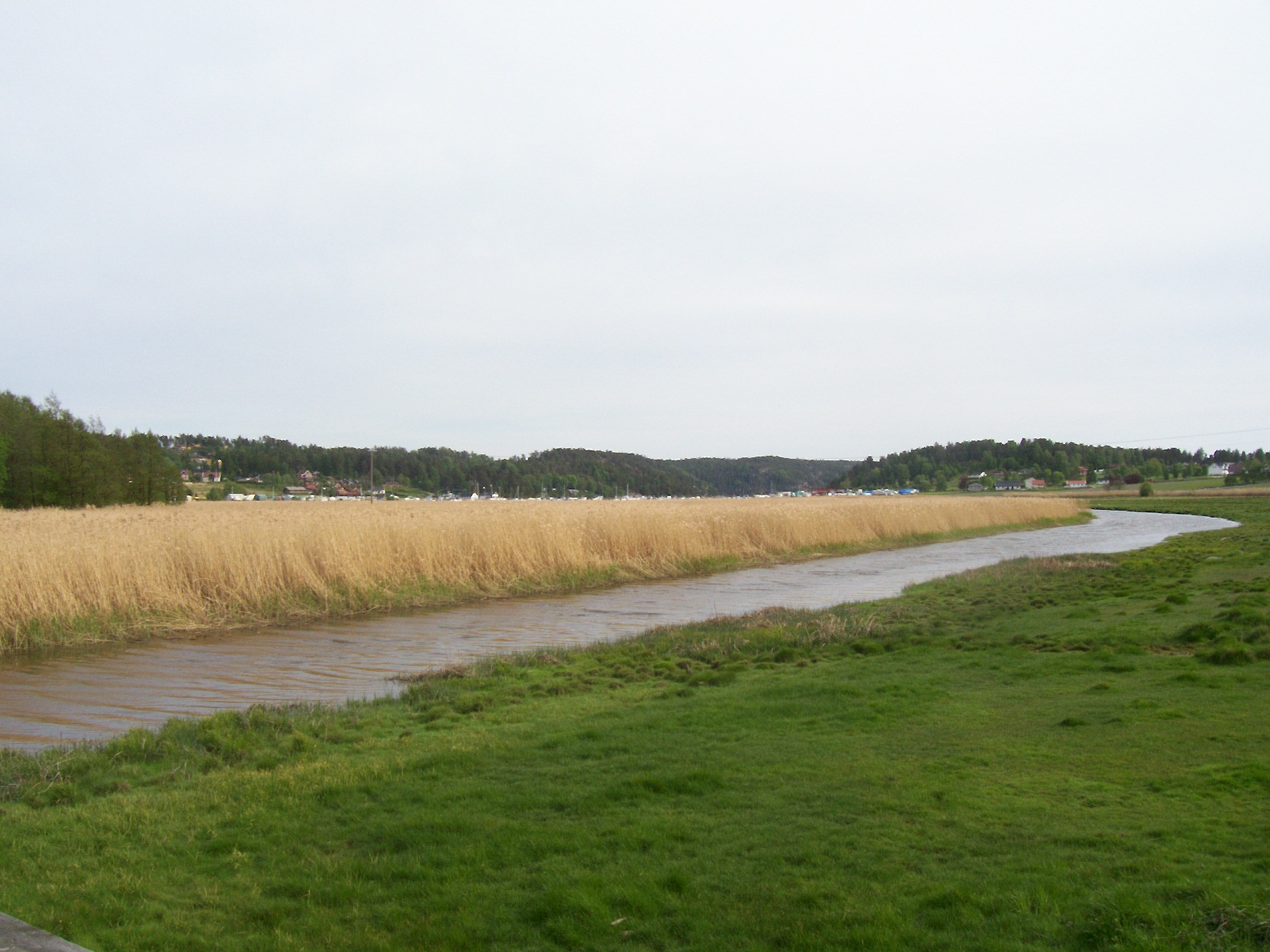 Skjebergbekken river, Skjebergkilen, Østfold